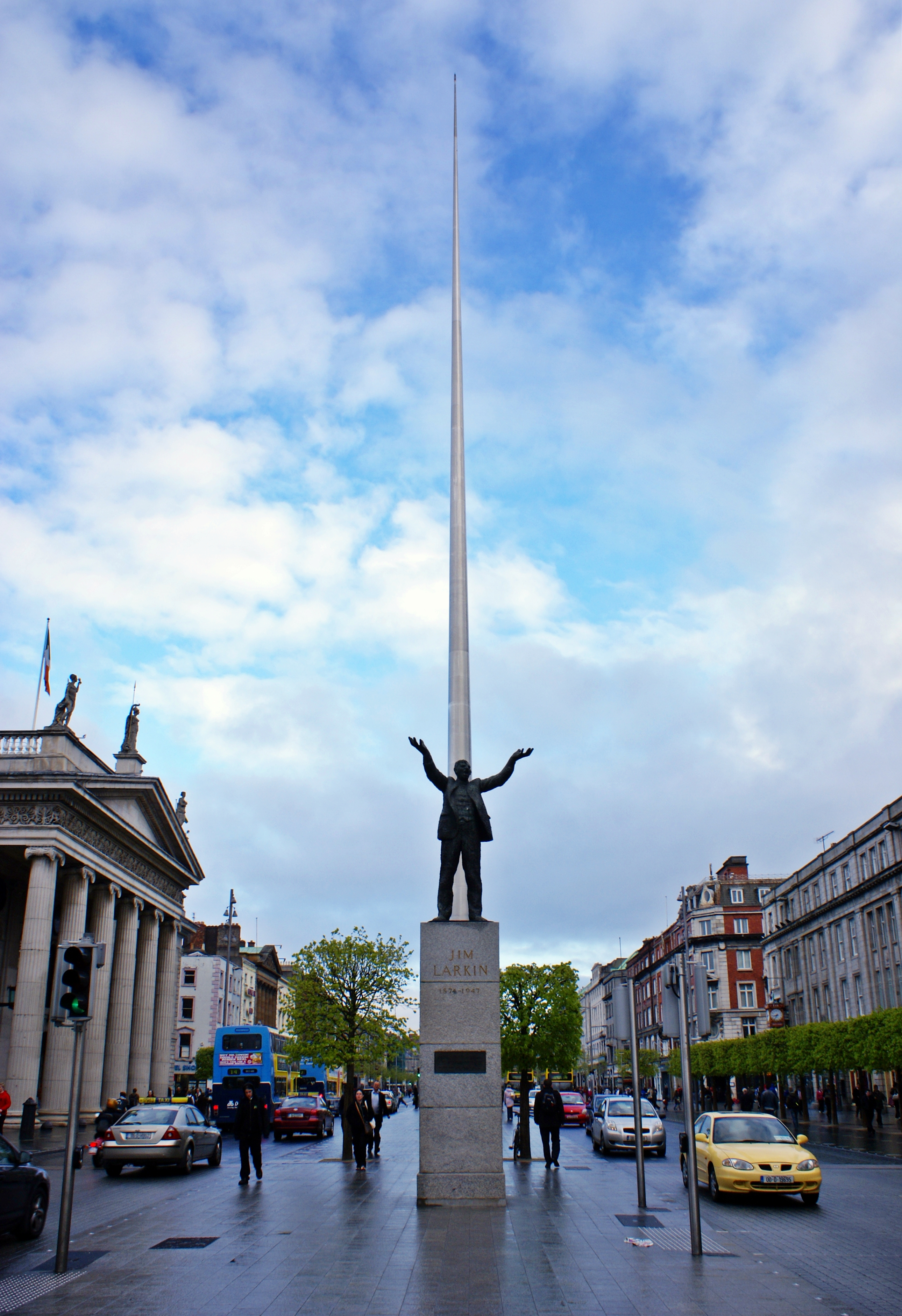 Looking up O'Connell Street with the statue of Jim Larkin in view.